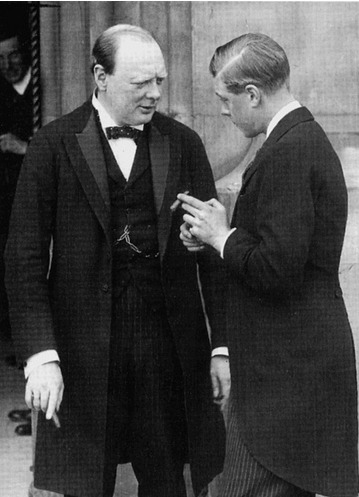 Churchill and Prince of Wales (future Edward VIII)